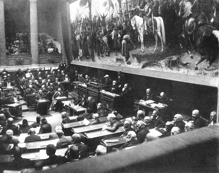 The House of Magnates in session in the National Museum.